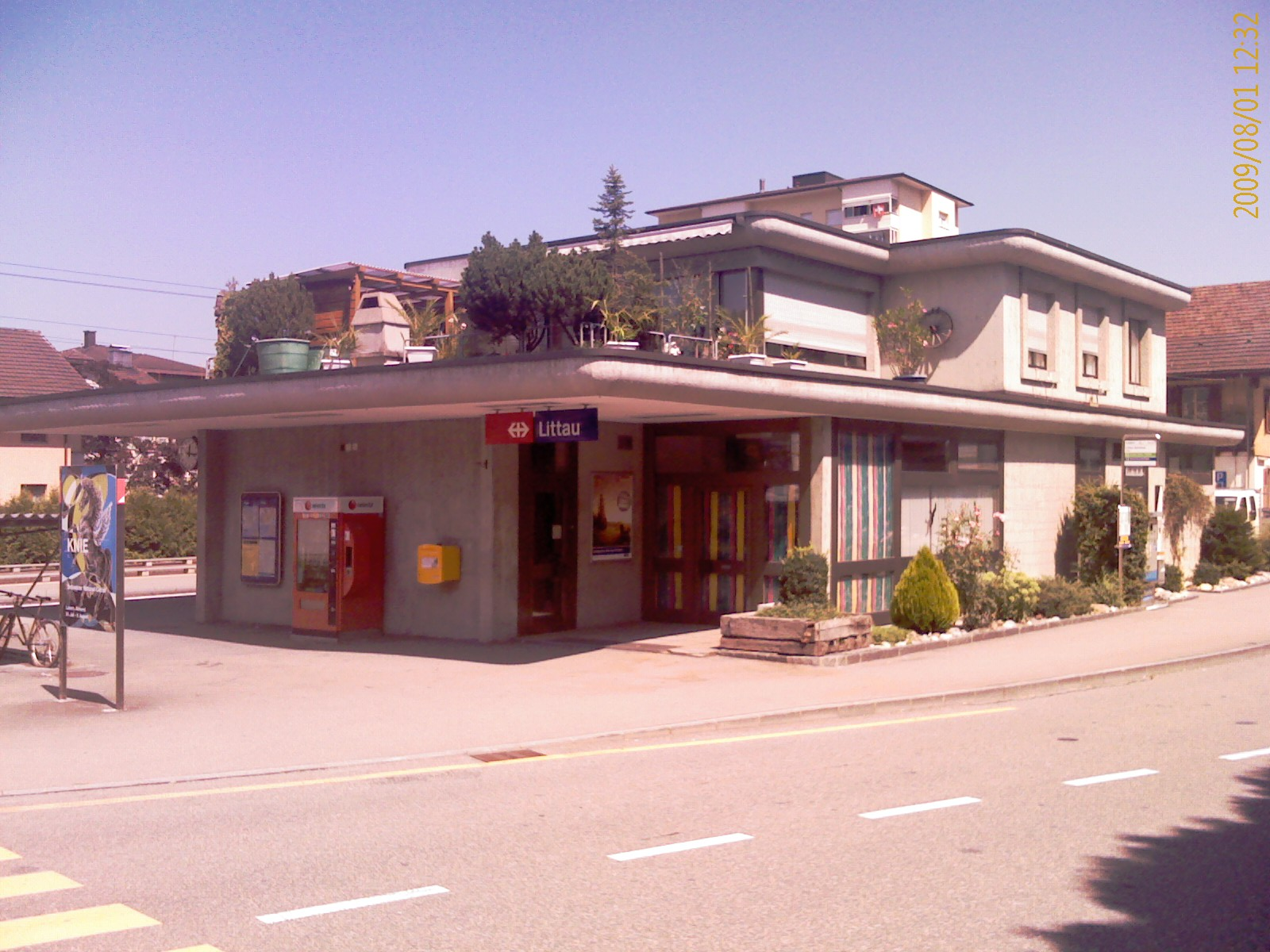 Train station of Littau, canton of Luzern, SwitzerlandEsperanto: Stacidomo de Littau, Kantono Lucerno, Svislando